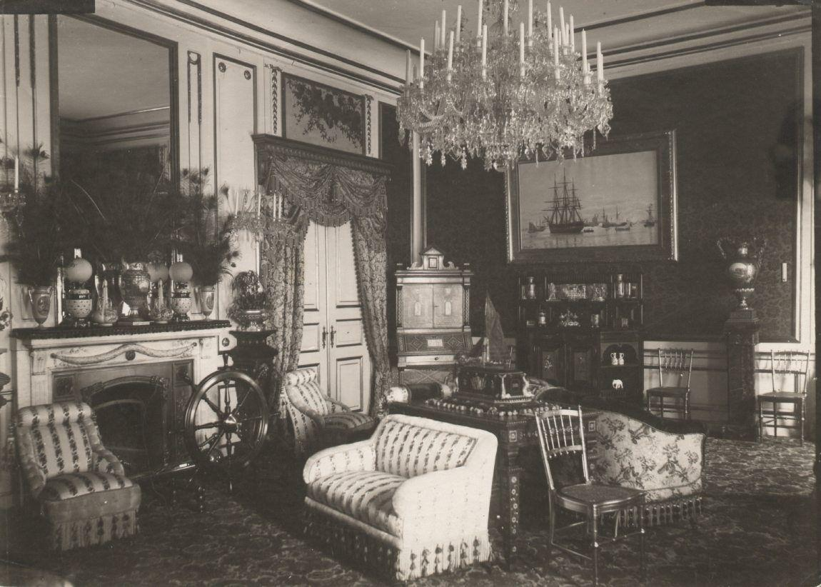 Prince Valdemar's living room in the Yellow Mansion at Amaliegade 18 in Copenhagen, Denmark